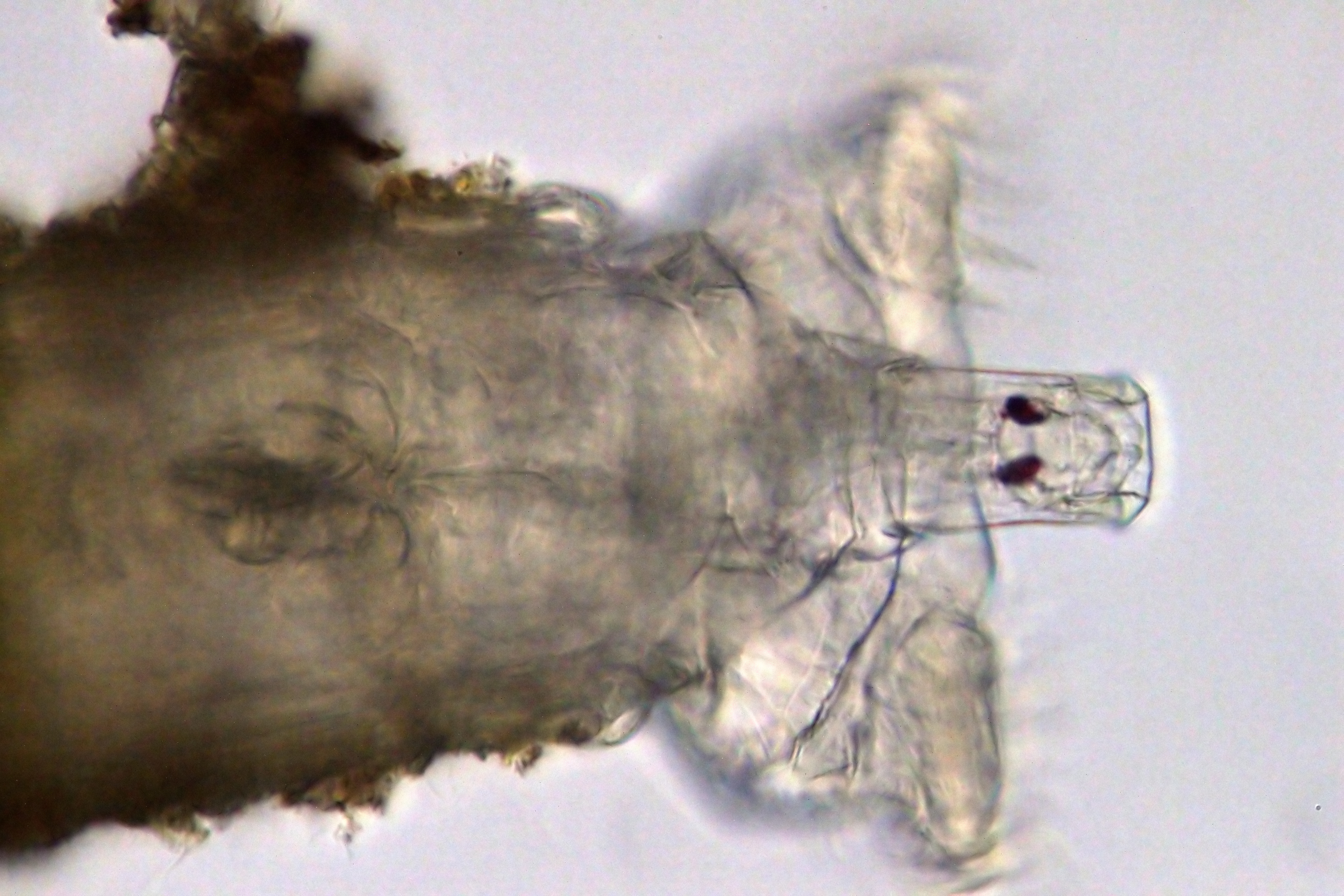 Rotifera, commonly called wheel animals